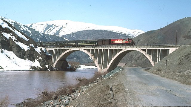 Doğu Express near Tanyeri 26 March 1976. DE21500 and the east bound Doğu Express crossing the Euphrates.